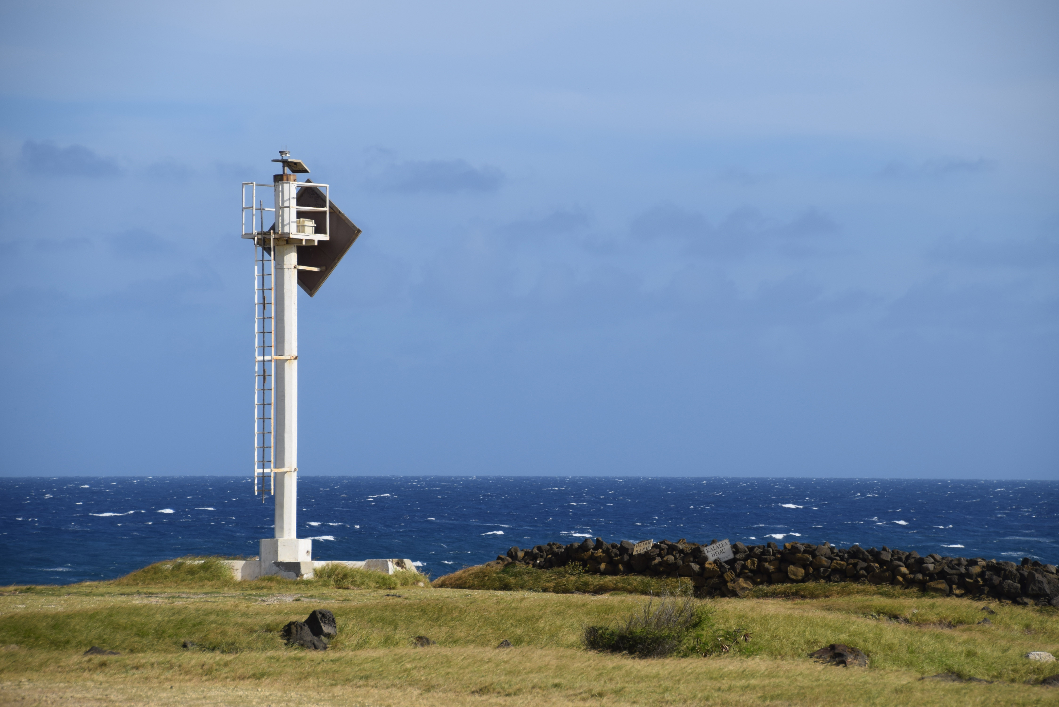 South Point Light, Hawaii, USA